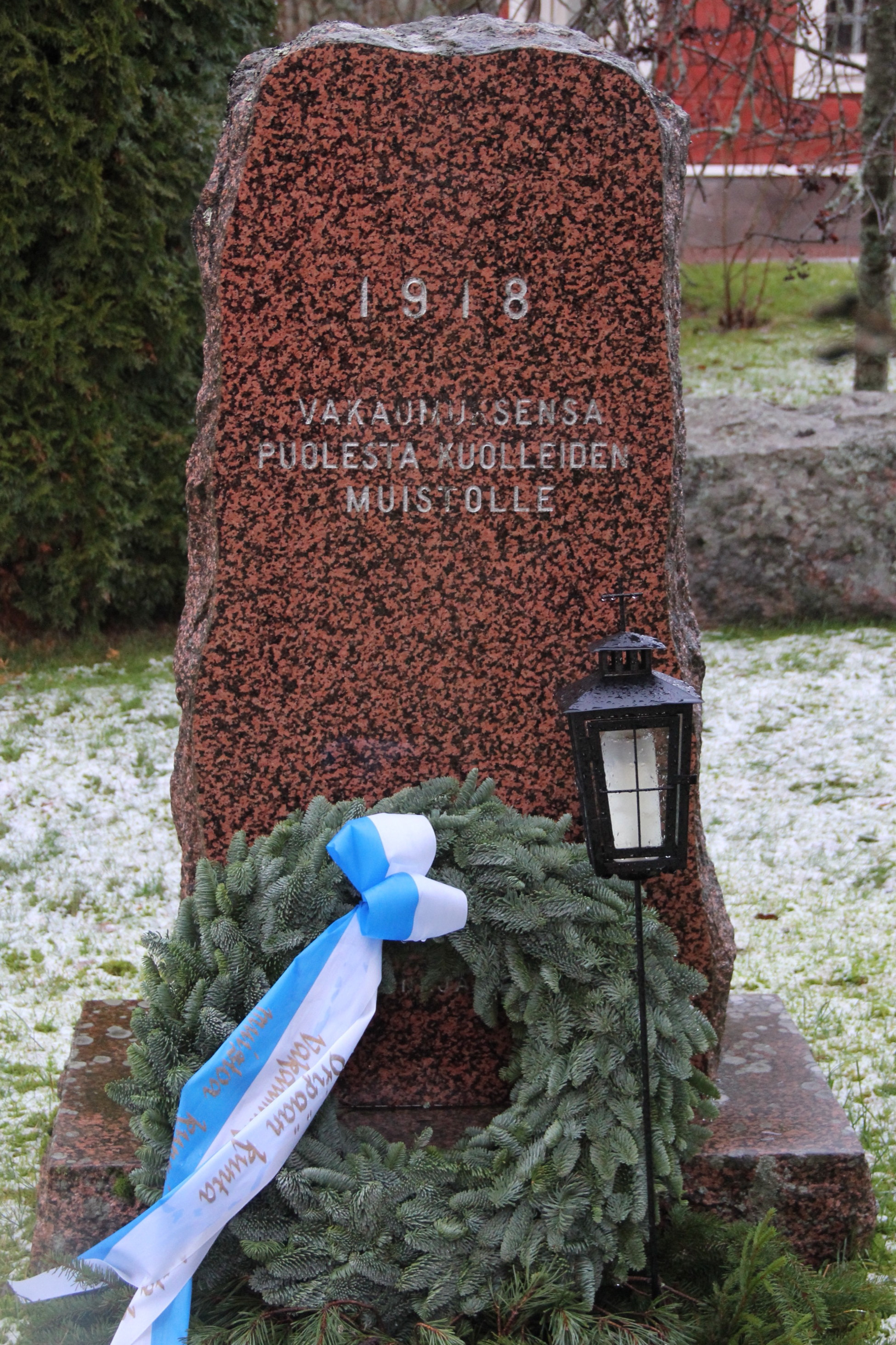 Oripää 1918 Civil war memorial, Oripää cemetery, Oripää, Finland. - Memorial was unveiled in 1990.